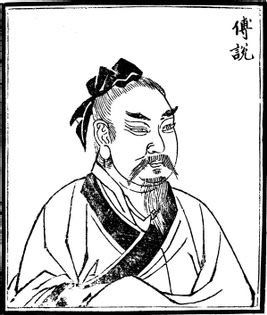 A portrait of Fu Yue, published in 1932.